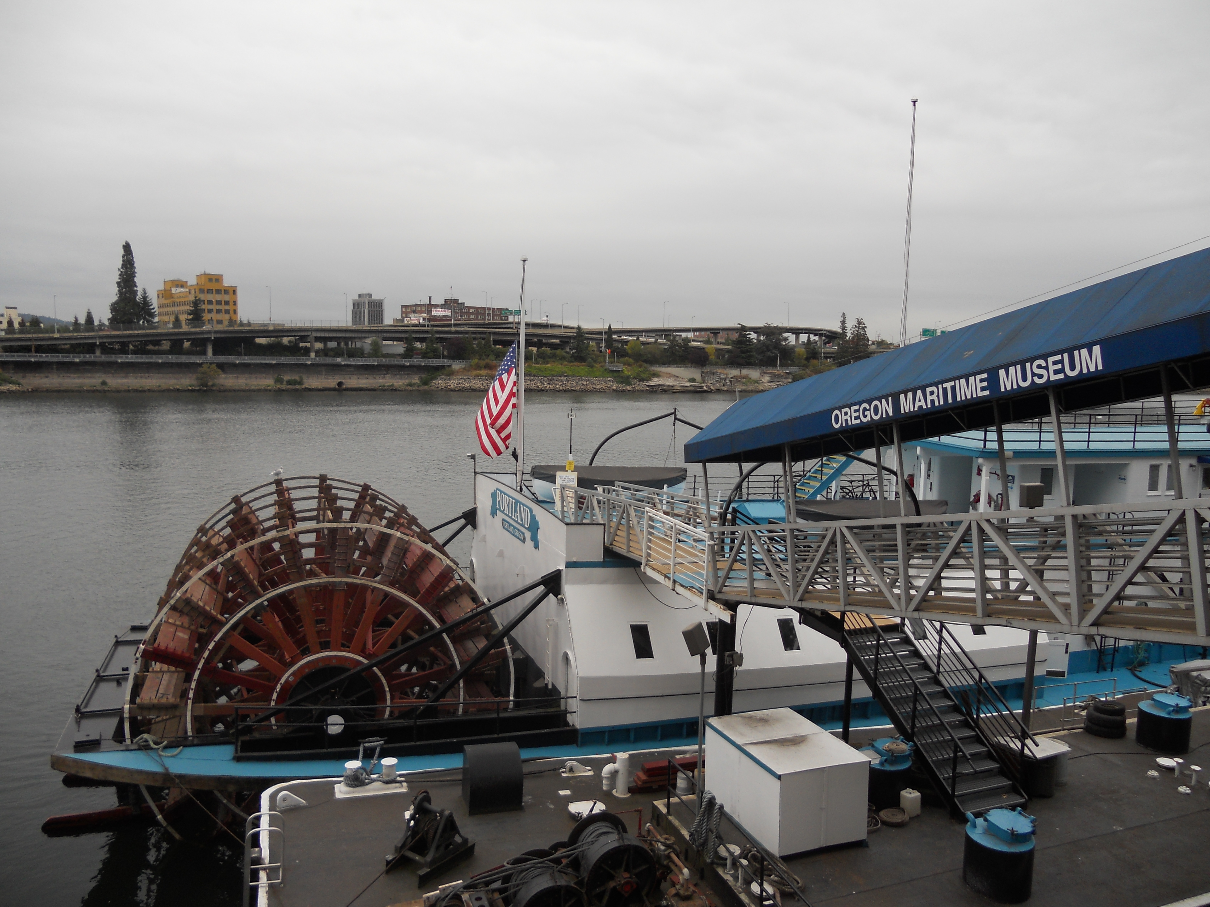 The Oregon Maritime Center and Museum, a floating museum on a paddle steamer docked on the Willamette River in Portland, Oregon, near the Morrison Bridge